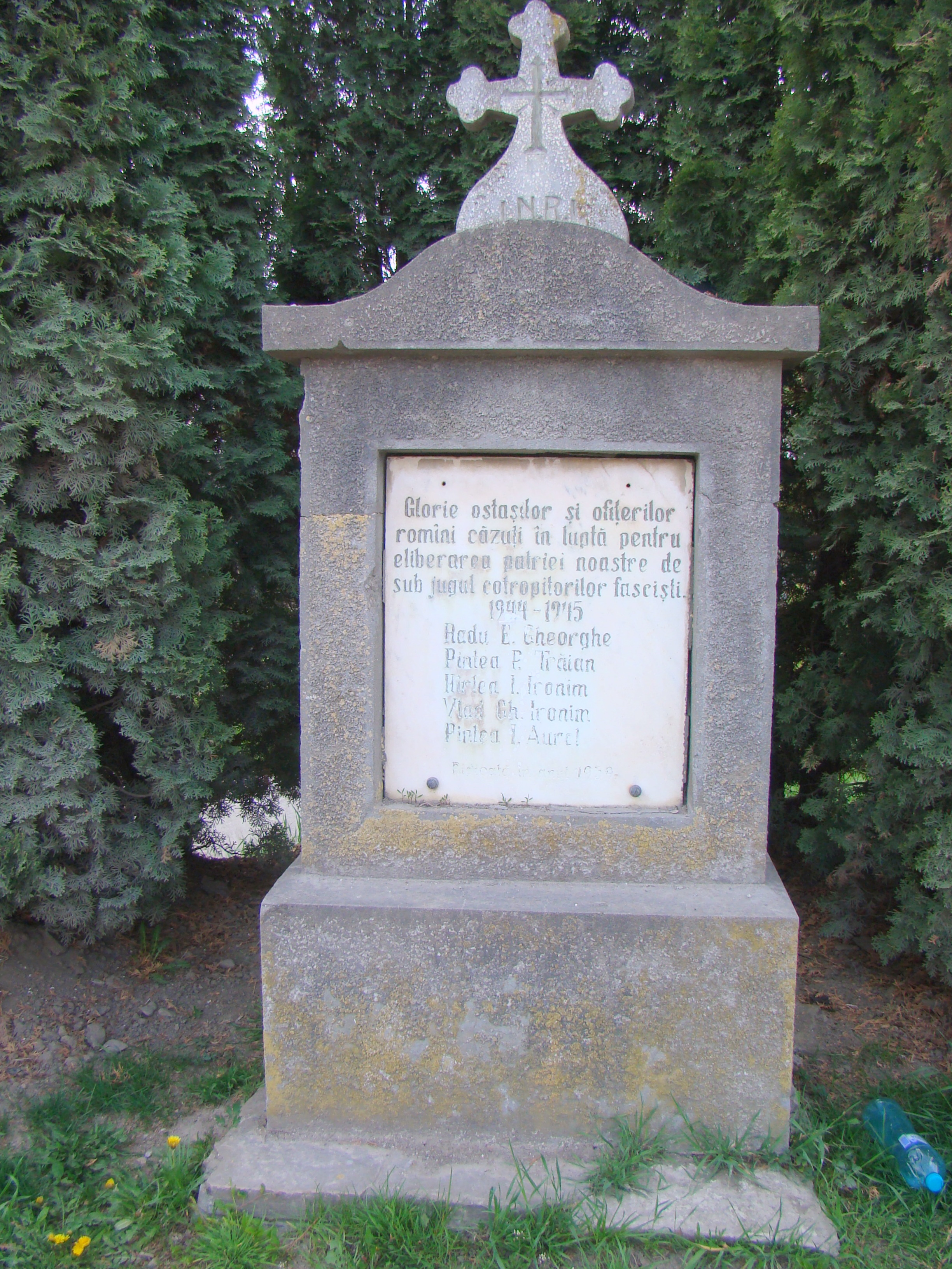 Albești, Mureș county, Romania